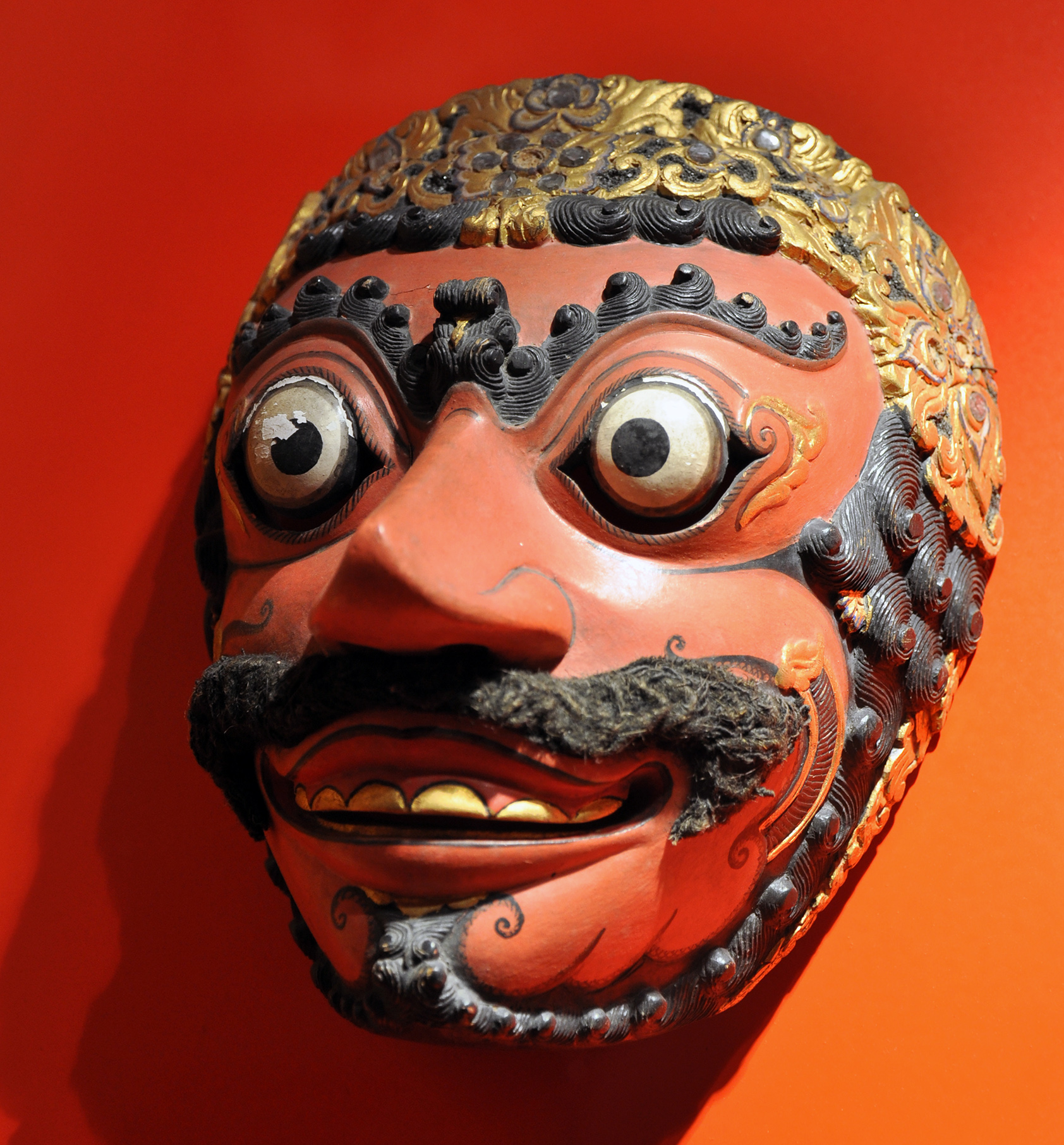 Mask for theater (Wayang Topeng), Java, given to the museum in 1879, 19th century (?). Royal Museums of Art and History (MRAH), Jubilee Park, Brussels.